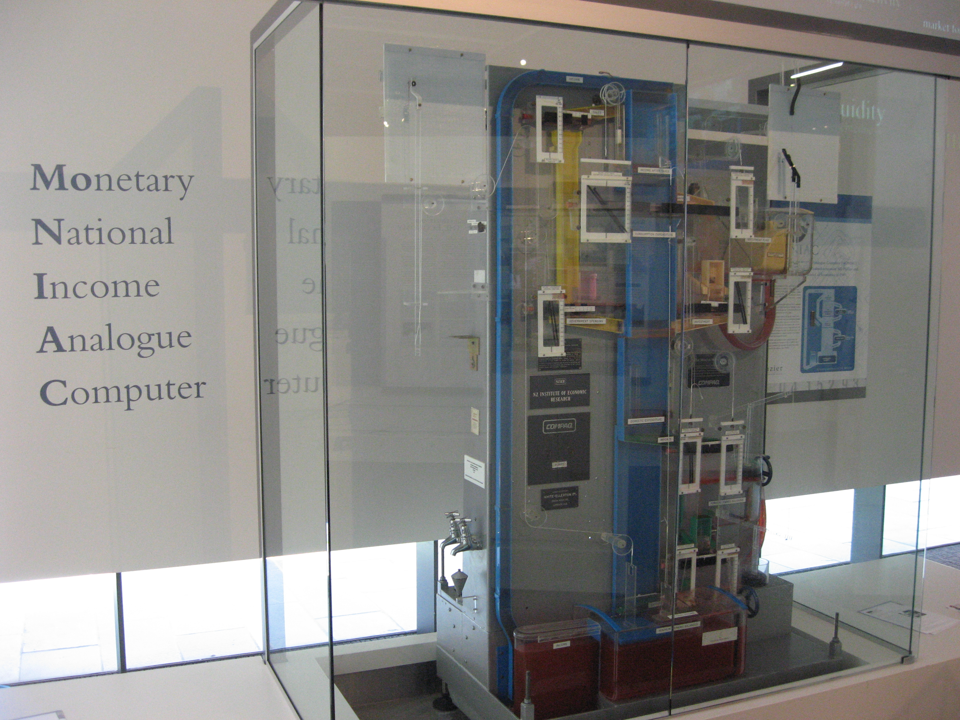 MONIAC Computer